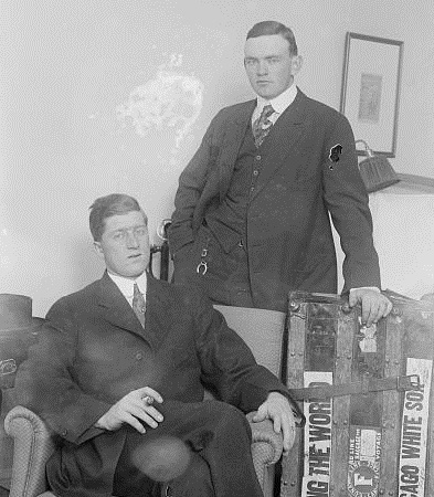 Tom D. Daly and Red Faber in 1914 March 9